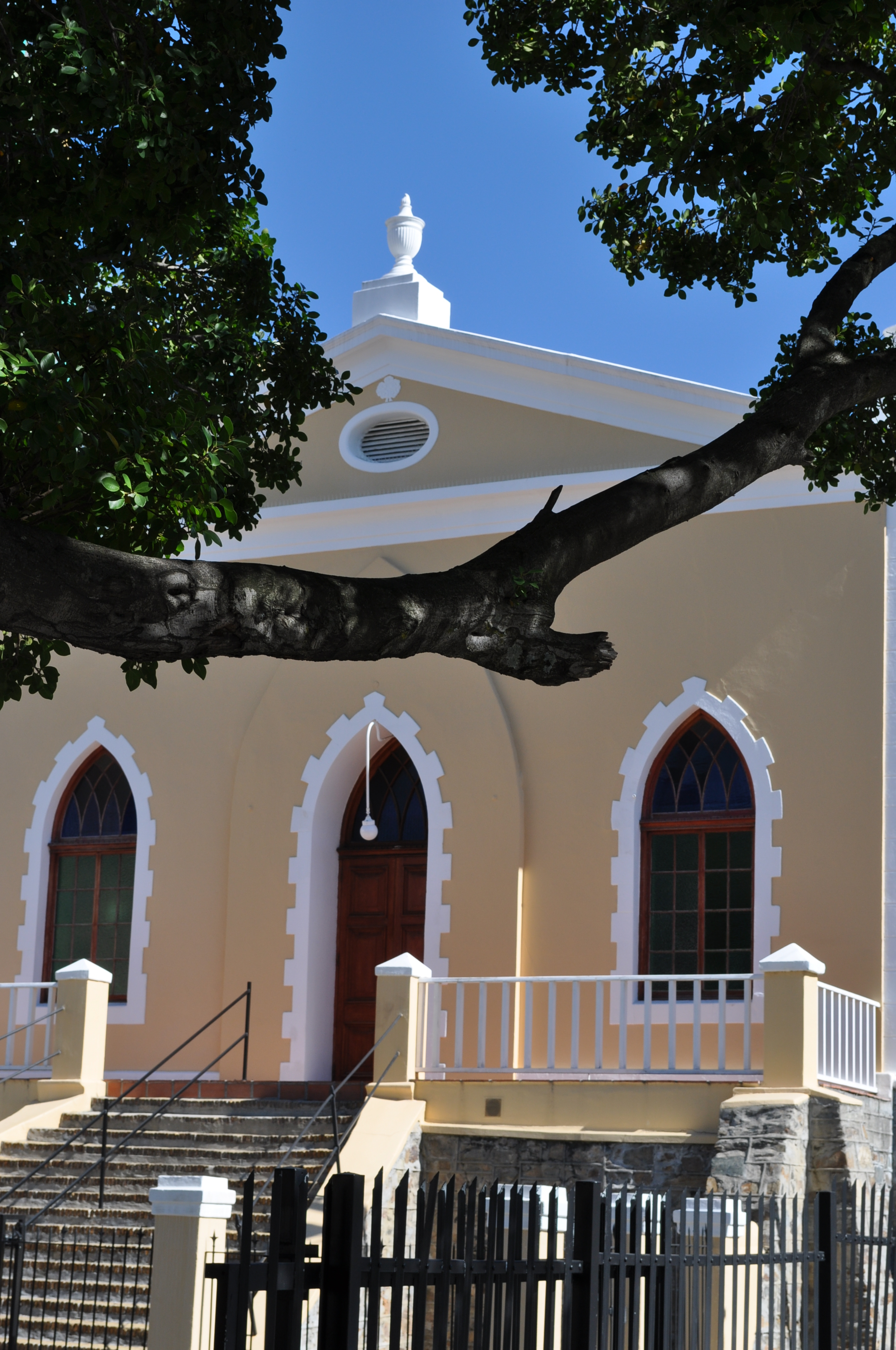 This was formerly the Opera House and was built in 1801 by the Louis Thibault. This media shows a South African Protected Site with SAHRA file reference 9/2/018/0042.